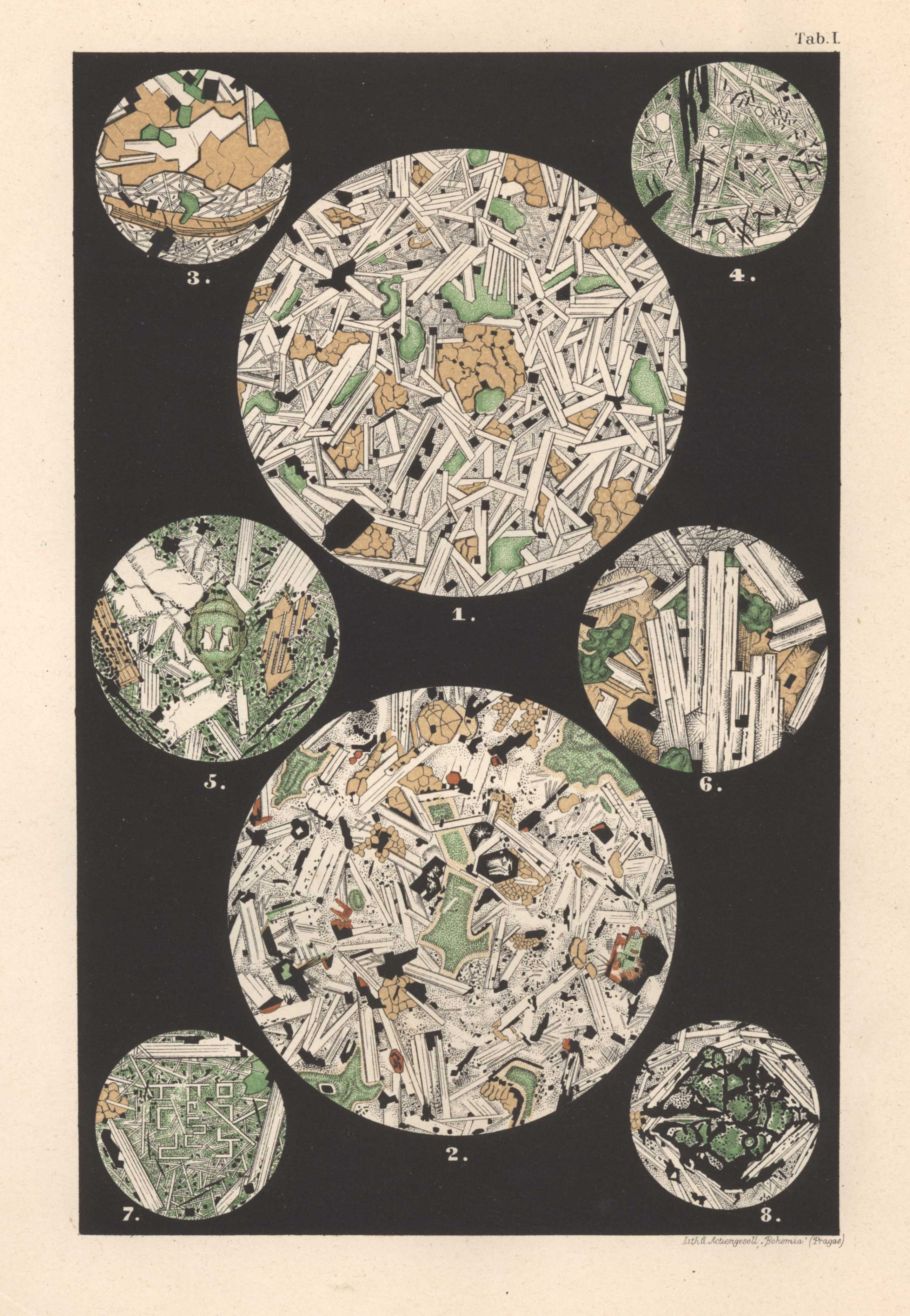 Historical microdrawings of thin sections of „melaphyrs“ of Bohemia, chromolithography.